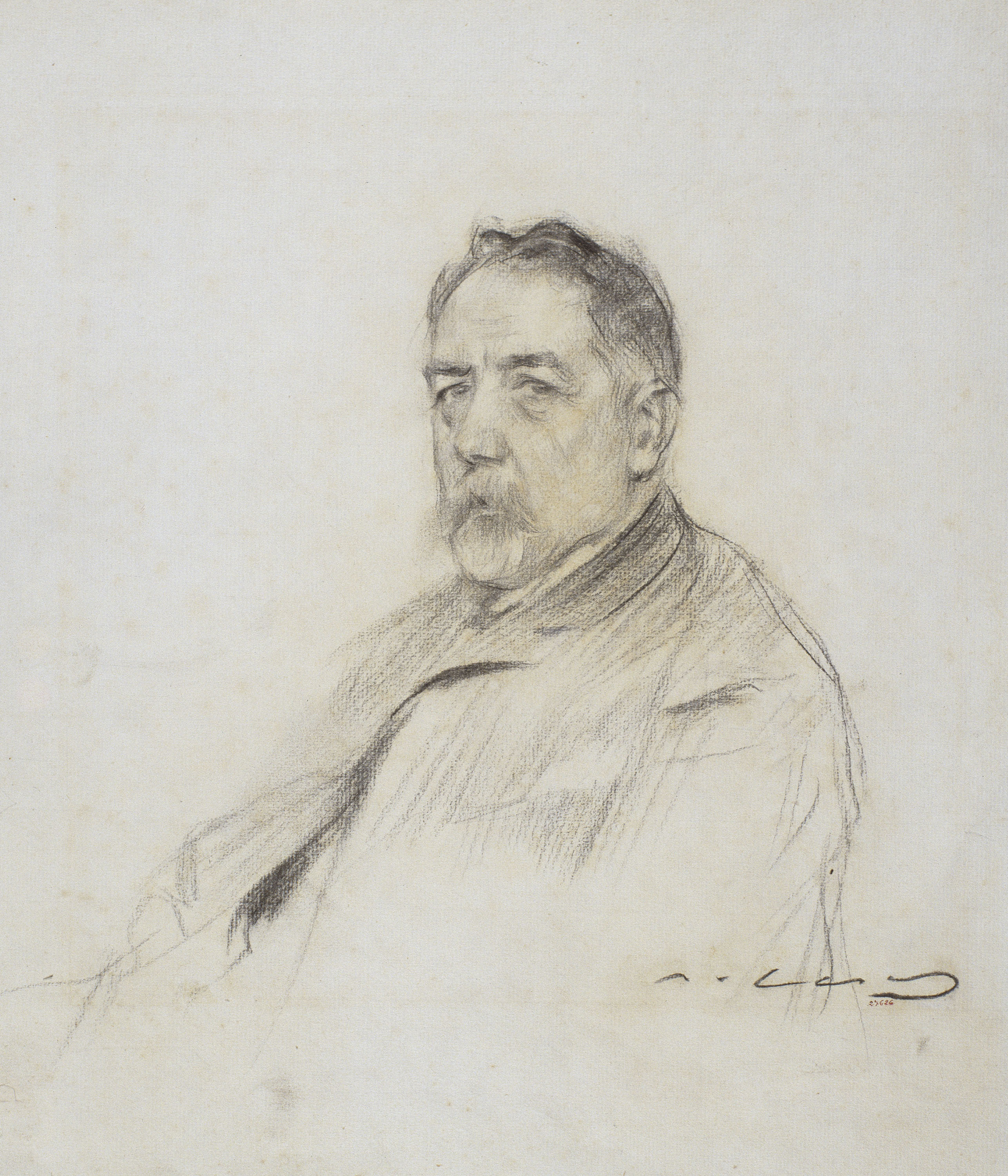 Portrait by Ramon Casas conserved at MNAC in Barcelona. Imagen 107